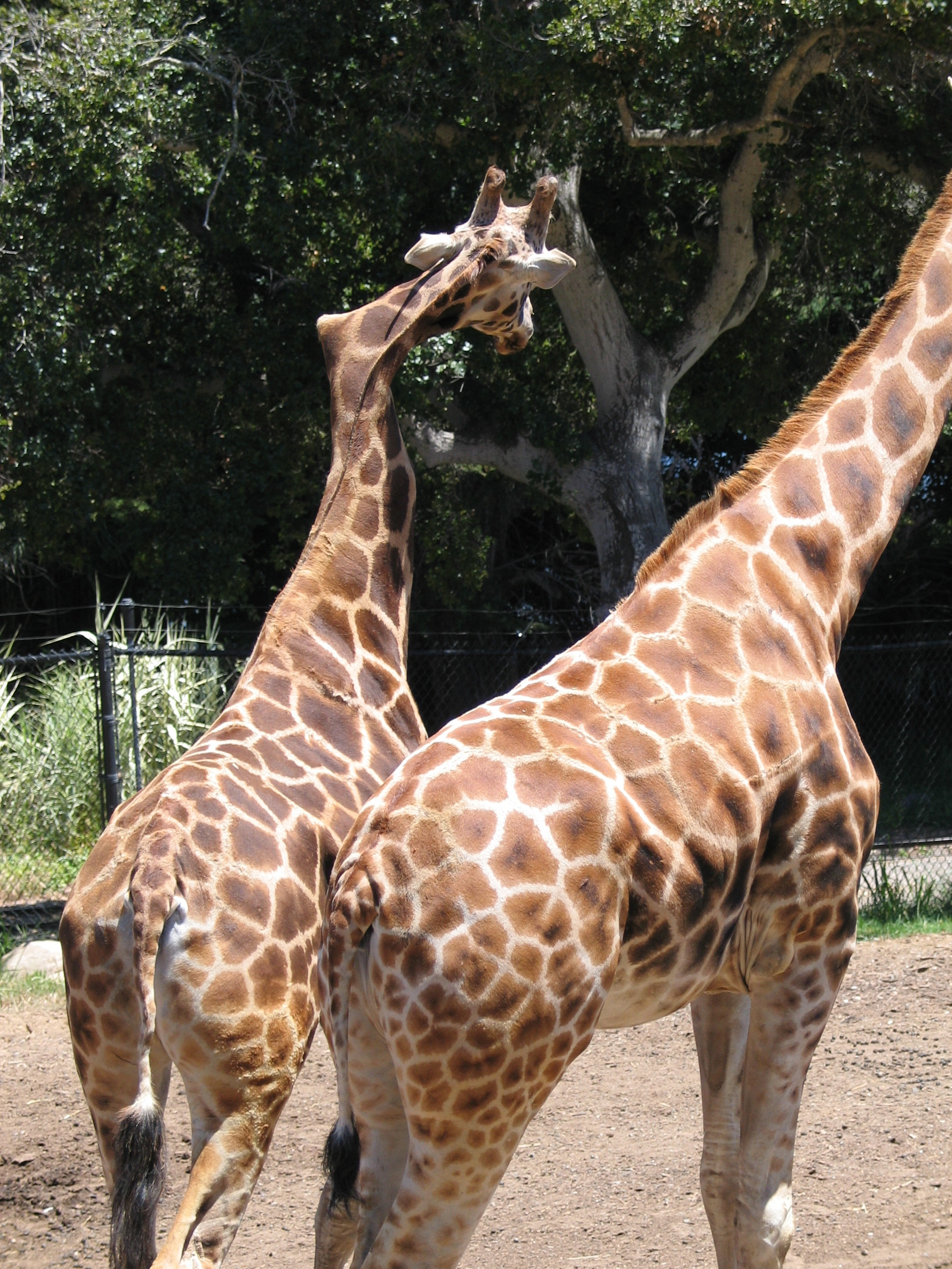 Gemina, the crooked-necked giraffe at the Santa Barbara Zoo.